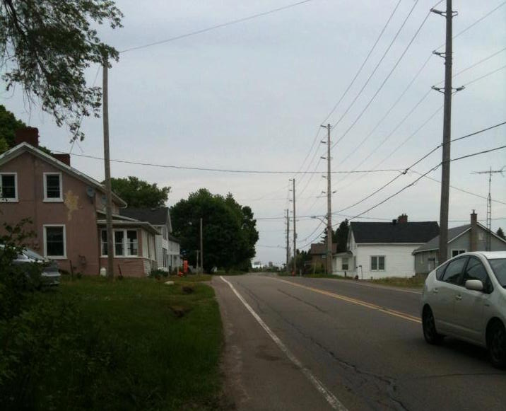 This image shows the few houses lining Ontario Highway 2 as it runs through New Wexford Ontario. The image shows most of New Wexford as seen standing along the side of Highway looking towards the east.